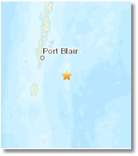 M 6.5 - Andaman Islands, India region 2010-05-31 19:51:45 (UTC)